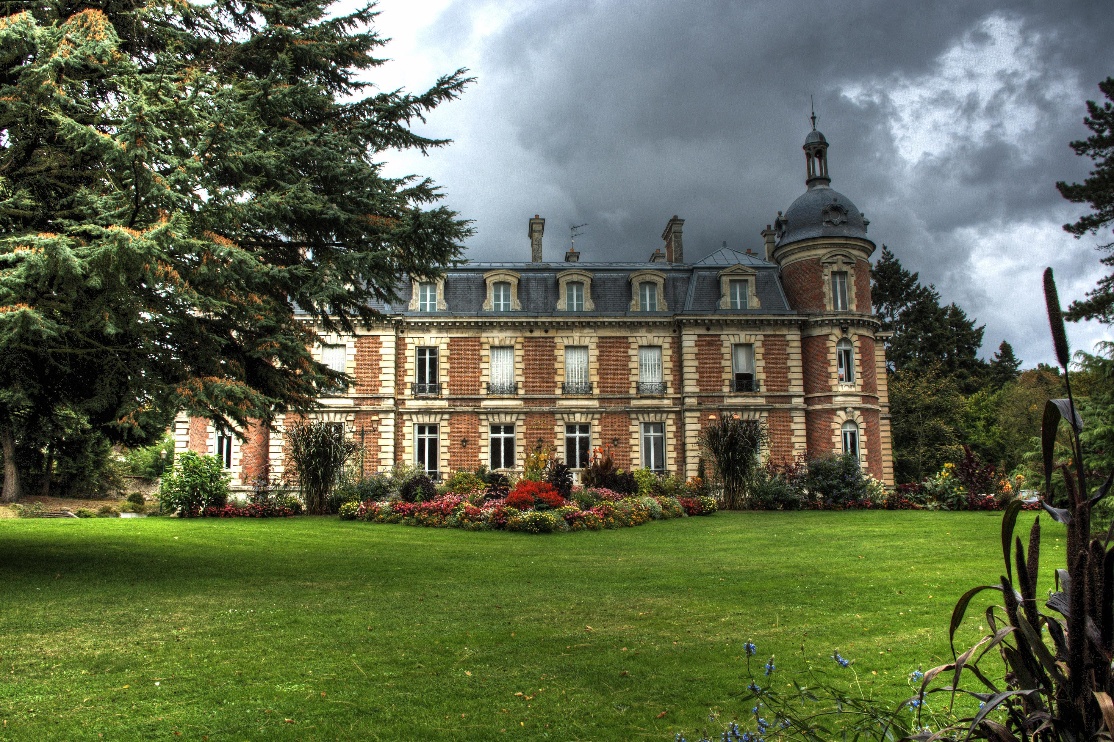 Castle of Trousse-Barrière, Briare, Loiret, Centre, France